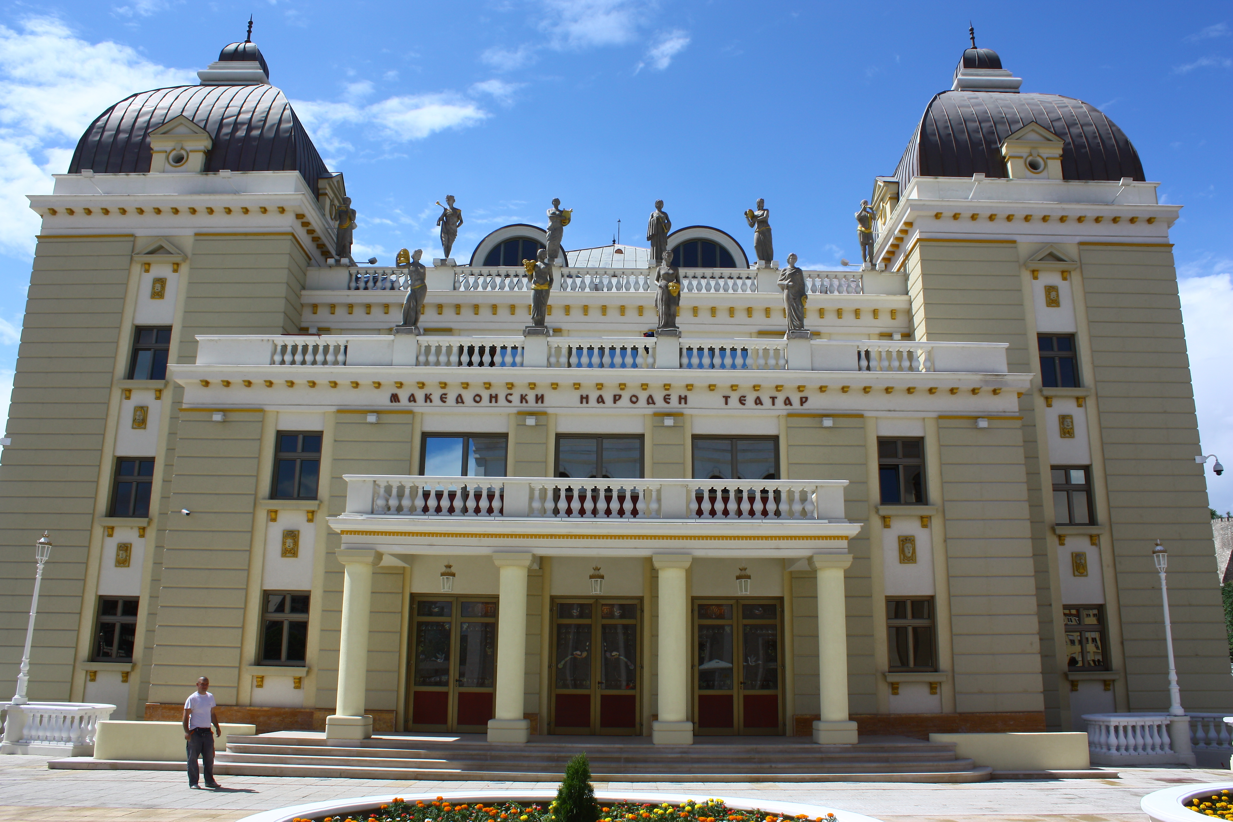 Macedonian National Theatre in Skopje , Macedonia